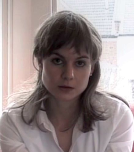 Solon in "PETER & ALISON'S GUIDE TO THE CREDIT CRUNCH", 2009